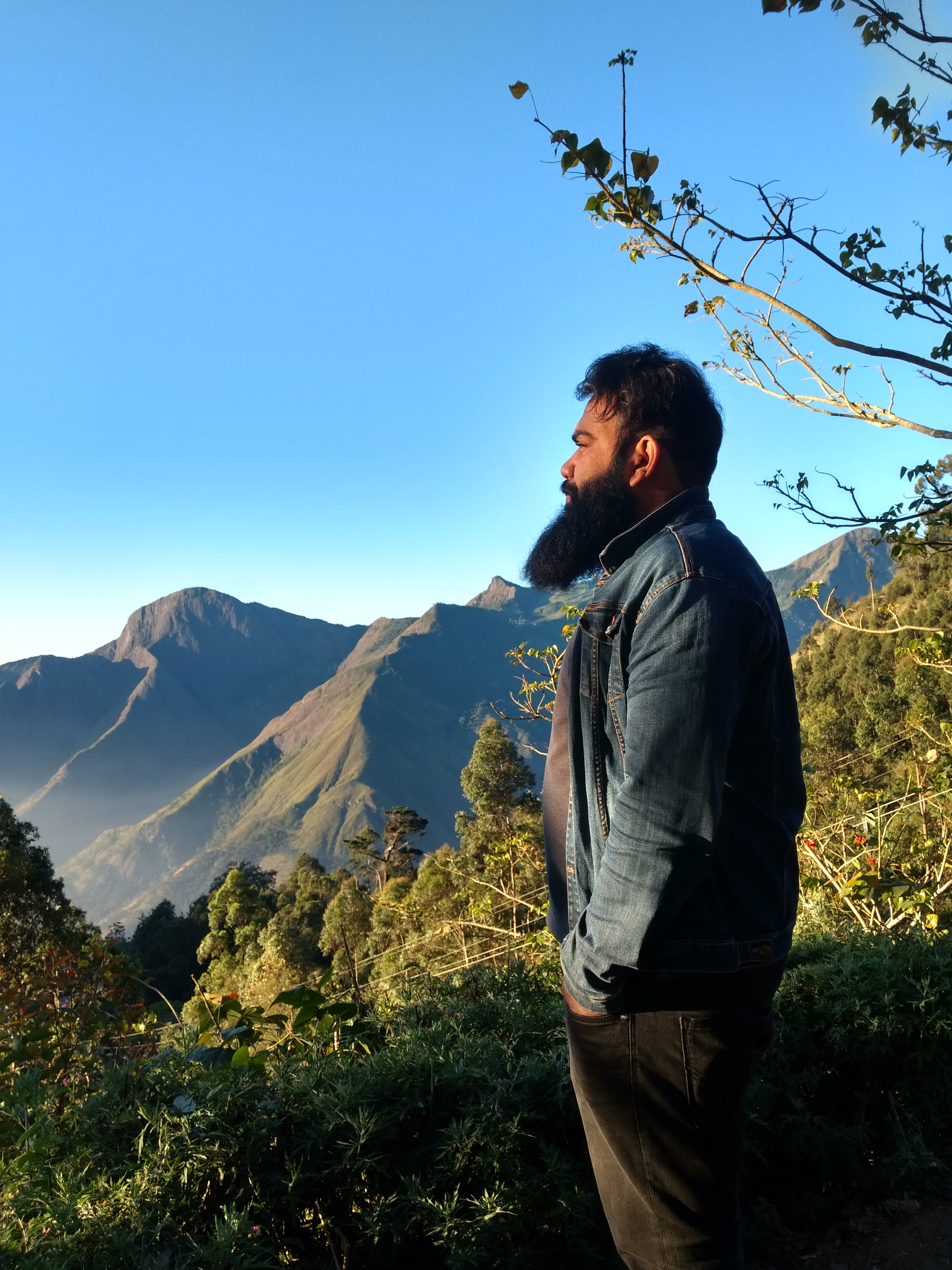 This picture show the sunrise view from top station